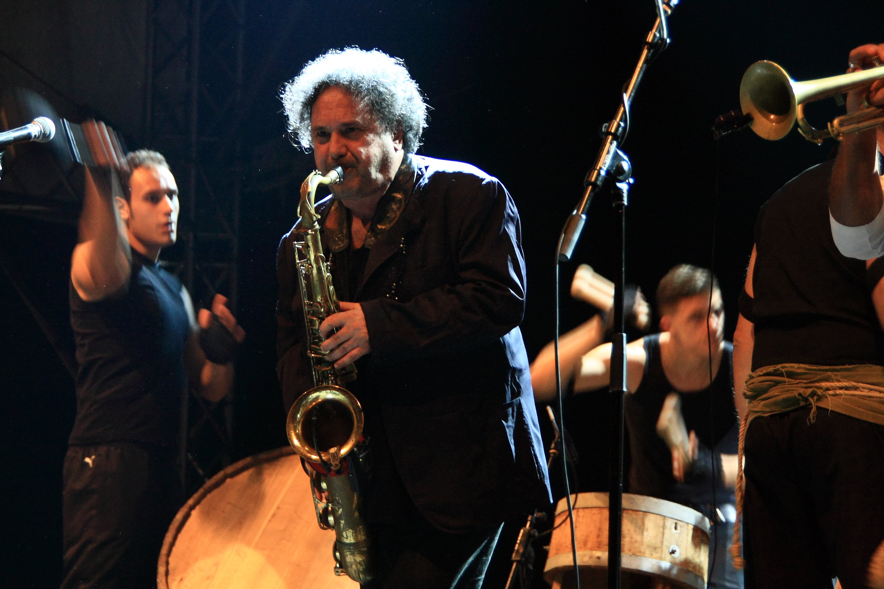 Enzo Avitabile performing with the traditional band of drummers Bottari di Portico at TFF Rudolstadt 2013.